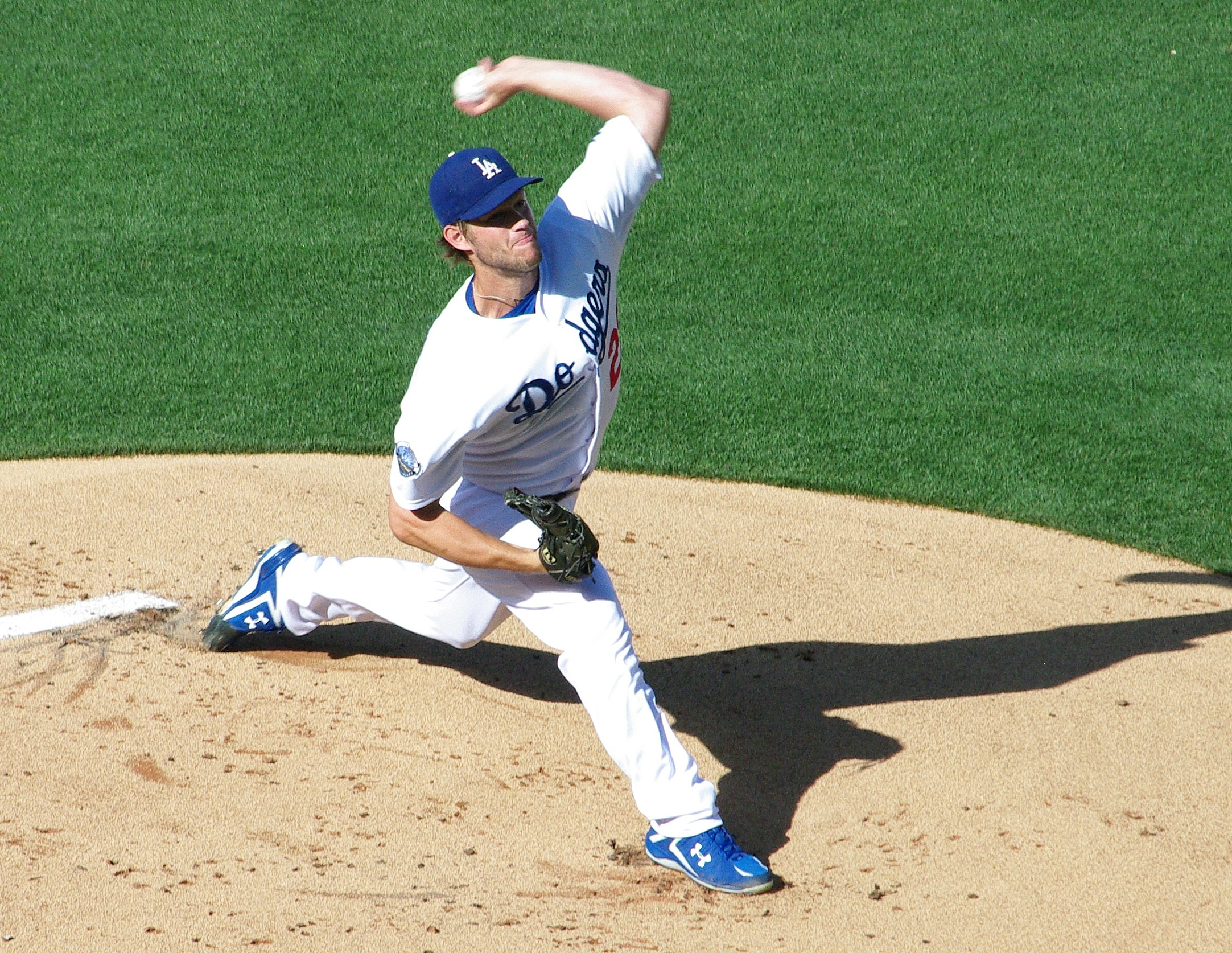 Clayton Kershaw pitching against the New York Mets in 2012